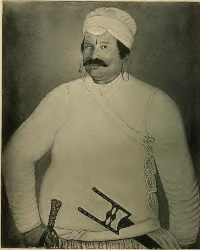 Picture of Ananda Ranga Pillai, from a portrait in possession of his family. Ananda Ranga Pillai was a dubash in the service of the French East India Company, whose private diaries published in the early 1900s provide a detailed insight into the lives of European colonists and the Indian inhabitants in South India during the 18th century